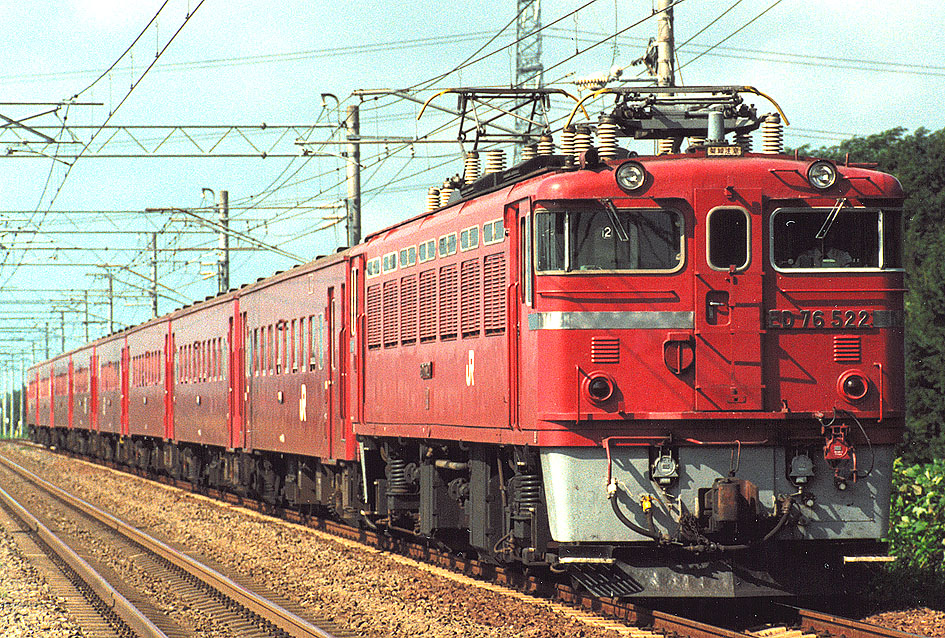 JR Hokkaido ED 76 522 electric locomotive pulling 50 series type 51 passenger cars near Toyohoro Station